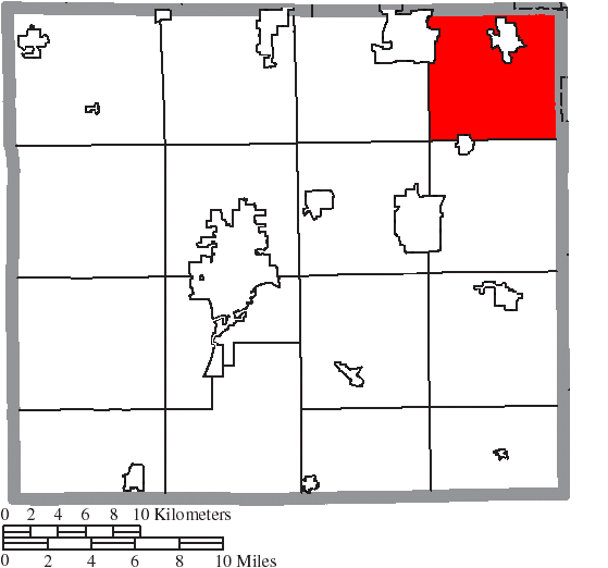 Map of the municipal and township boundaries of Wayne County, Ohio, United States, as of the 2000 census, with the location of Chippewa Township highlighted. Township borders are shown only in unincorporated areas in order to differentiate incorporated and unincorporated areas more clearly.